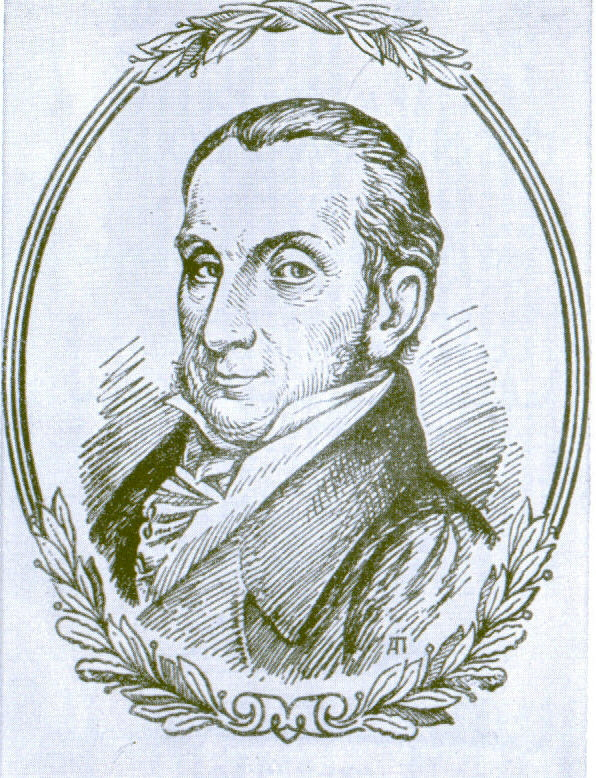 Wolff C.F. not certain that this picture represents CFW